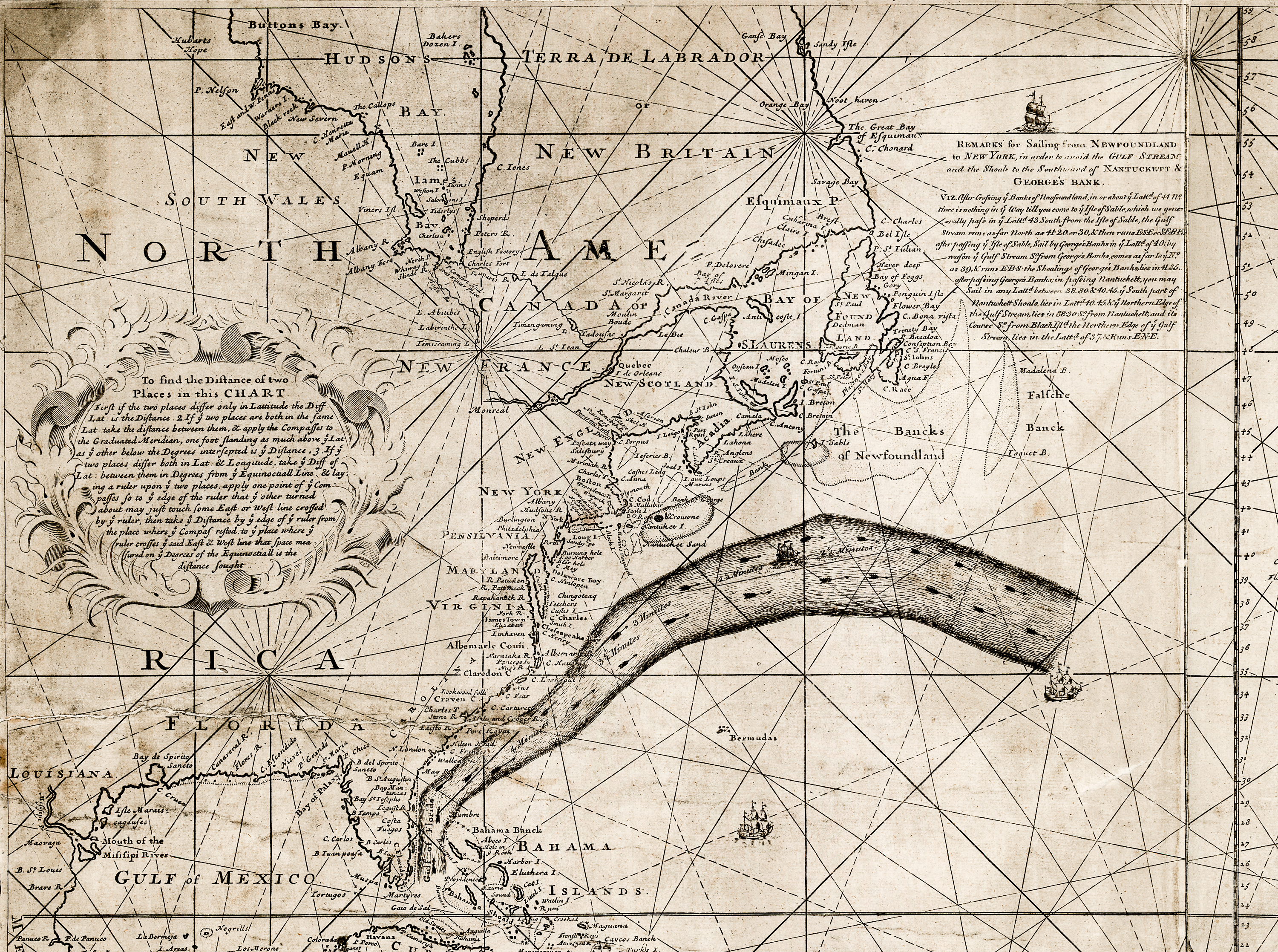 This is the upper left portion of the first Franklin-Folger chart of the Gulf Stream printed in London in 1769 and held by the LOC. The commons has this chart as File:Franklin-Folger chart of the Gulf Stream LOC 88696412jpg 30 May 2018, publication authorized by Benjamin Franklin and Timothy Folger. Gulf Stream.